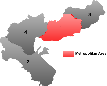 Map of Kizilsu prefecture in Xinjiang province